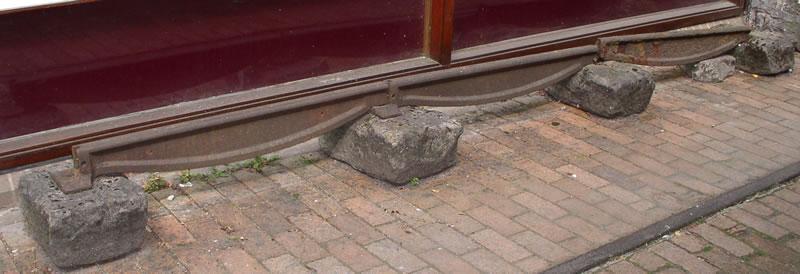 Cromford and High Peak Railway Specimen of Fishbelly Rail and stone blocks